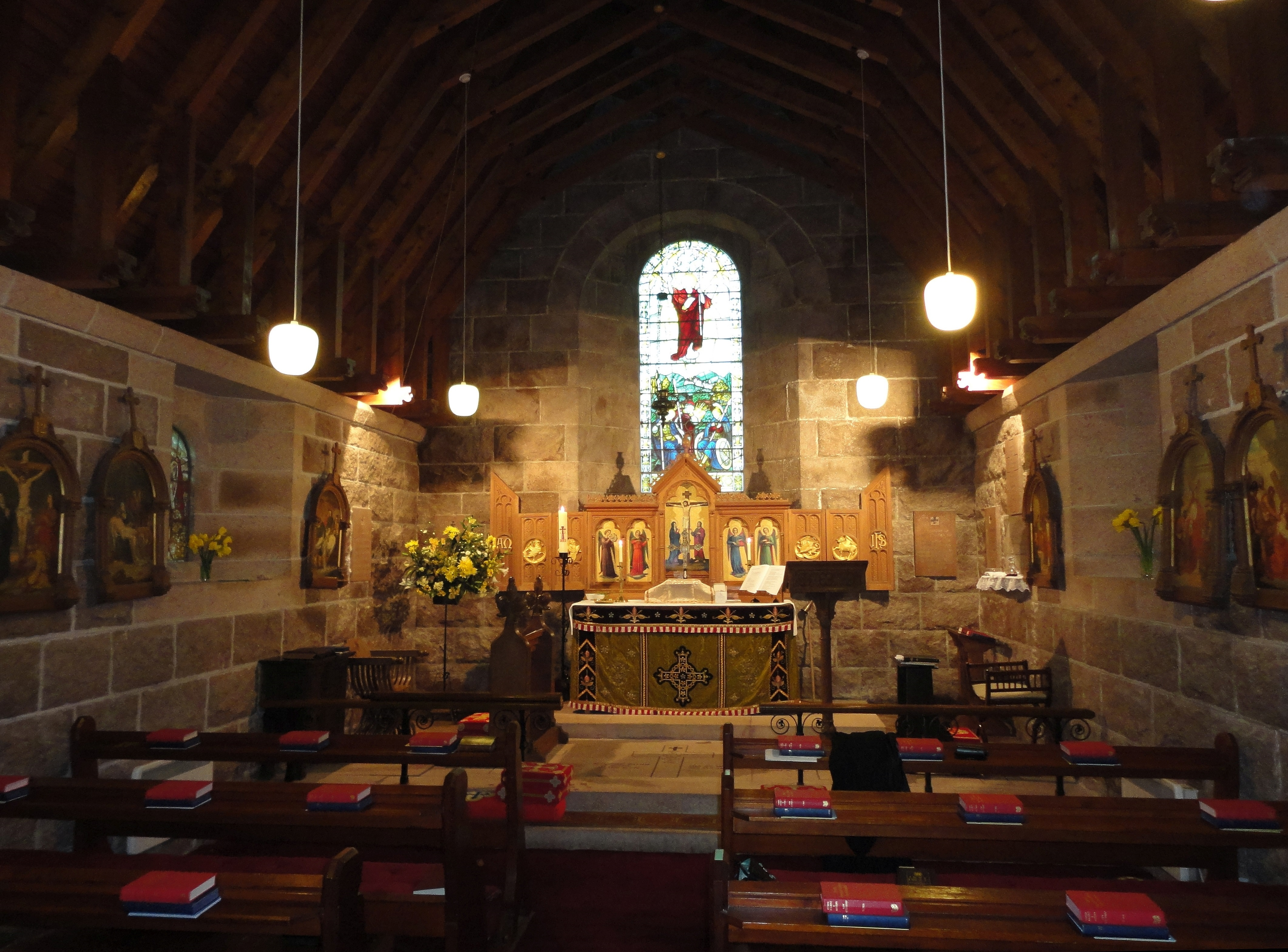 Braemar, Mar Lodge Estate, St Ninian's Chapel - interior